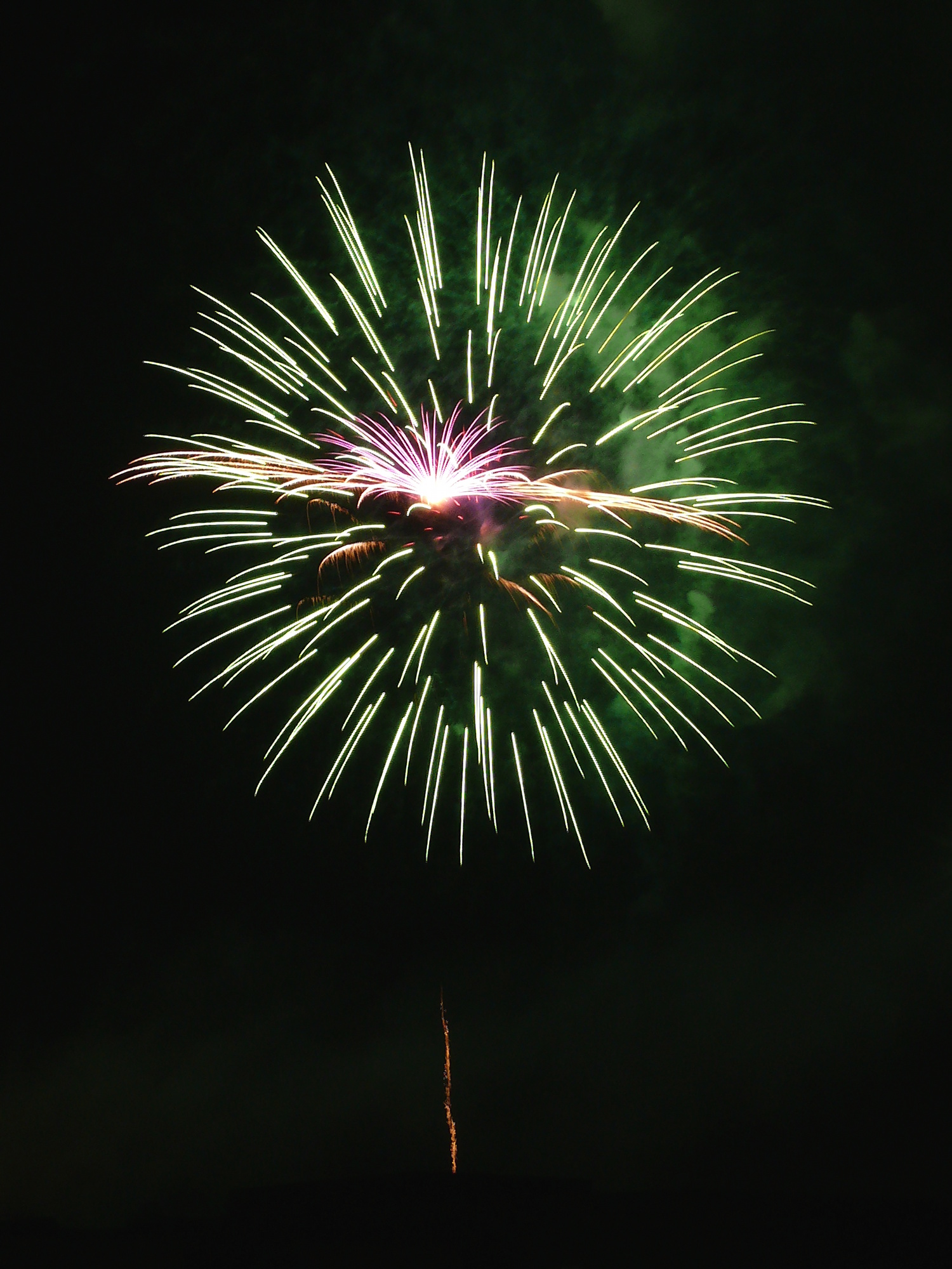 Fireworks display at the 2008 Independence Day celebration in Lenoir. Photo taken with a Panasonic Lumix DMC-FZ50 in Caldwell County, NC, USA.